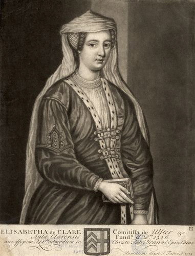 Mezzotint of Elizabeth, Lady de Clare, 1714, by John Faber Sr. after a portrait by an unknown artist. Elizabeth de Clare was the benefactor of Clare College, Cambridge University. Courtesy of the National Portrait Gallery, London.